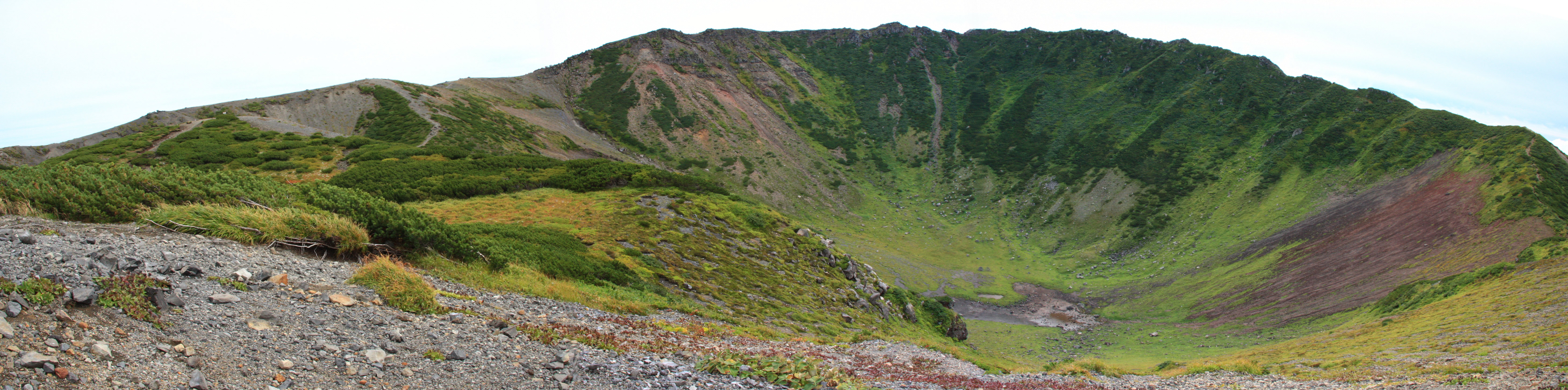 Summit crater of Mount Yotei. Chichigama Crater.